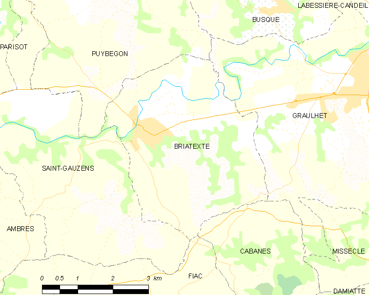 Map of French municipality Briatexte